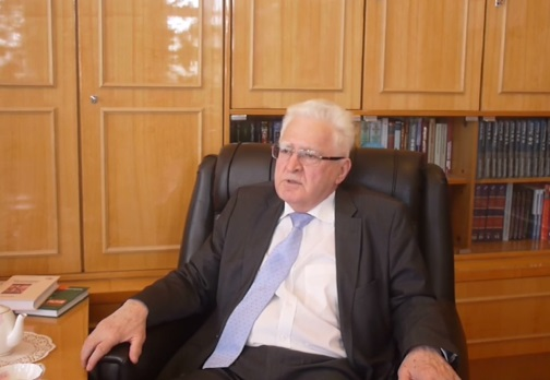 Фото А.А. Гусейнова.